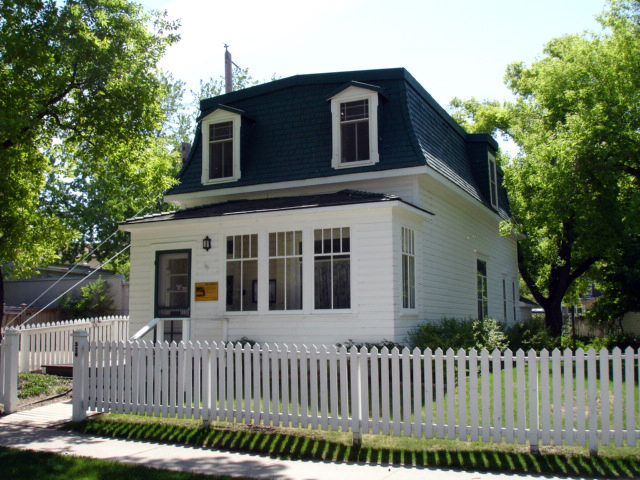 The Marr Residence (1884), a municipal heritage property in Saskatoon, Saskatchewan, Canada.